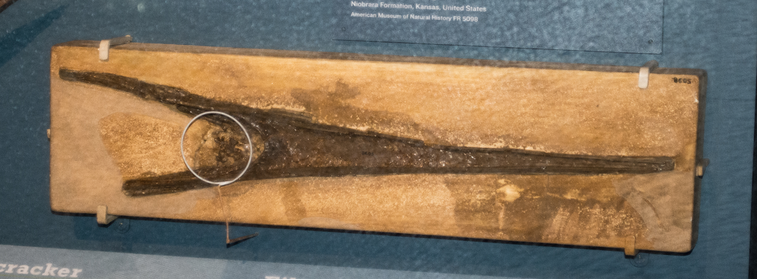 Fossil Pteranodon skull, showing a fish in the throat. On display as part of the exhibit "Pterosaurs: Flight in the Age of Dinosaurs" at the Cleveland Natural History Museum in Cleveland, Ohio, in the United States. This pteranodon probably choked to death on that fish. This animal lived about 85 million years ago. This fossil was found in the Niobara formation in Kansas in the United States.